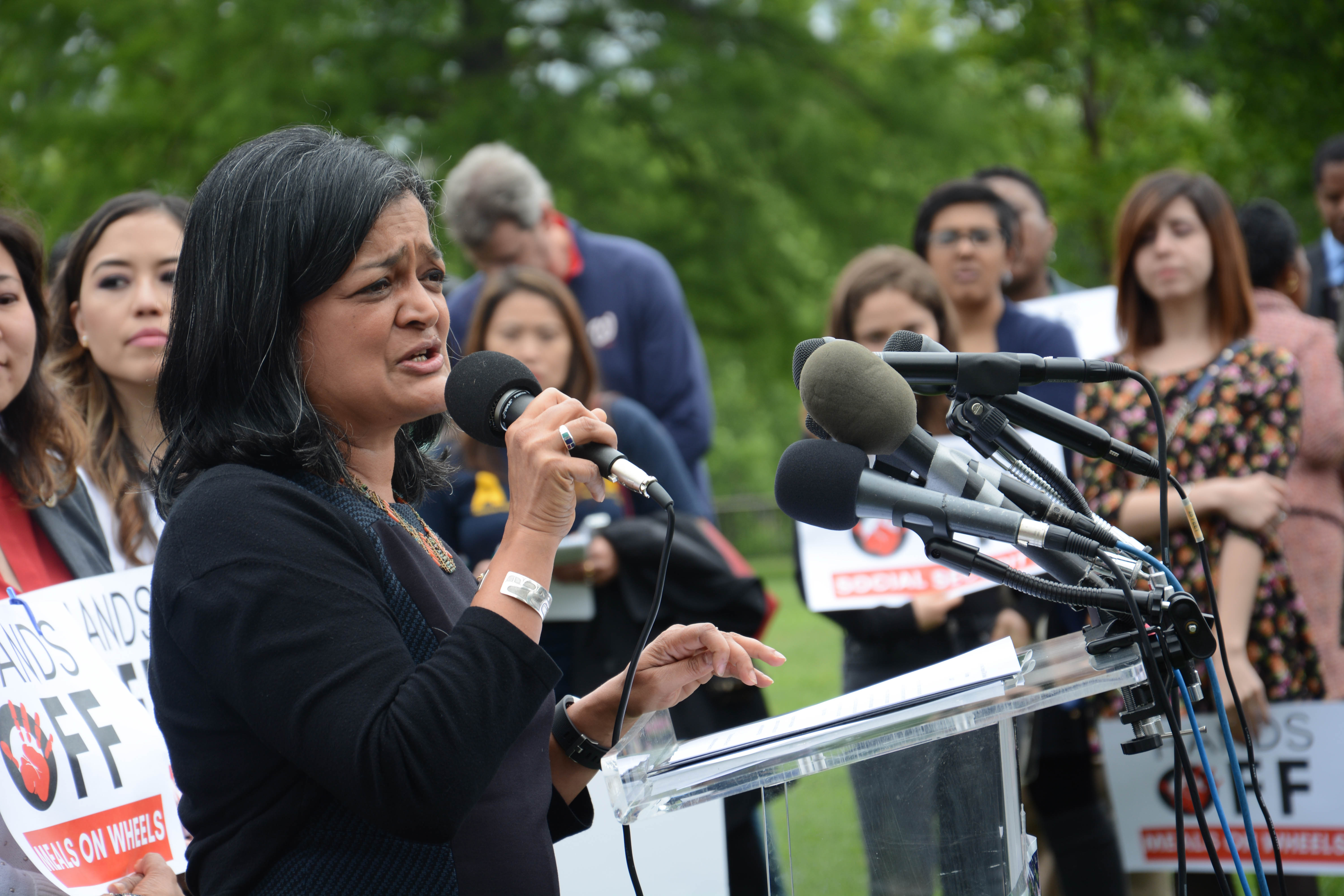 Lawmakers, community organizations and unions gather on the grounds of the Capitol to voice concerns about the President's proposed budget.